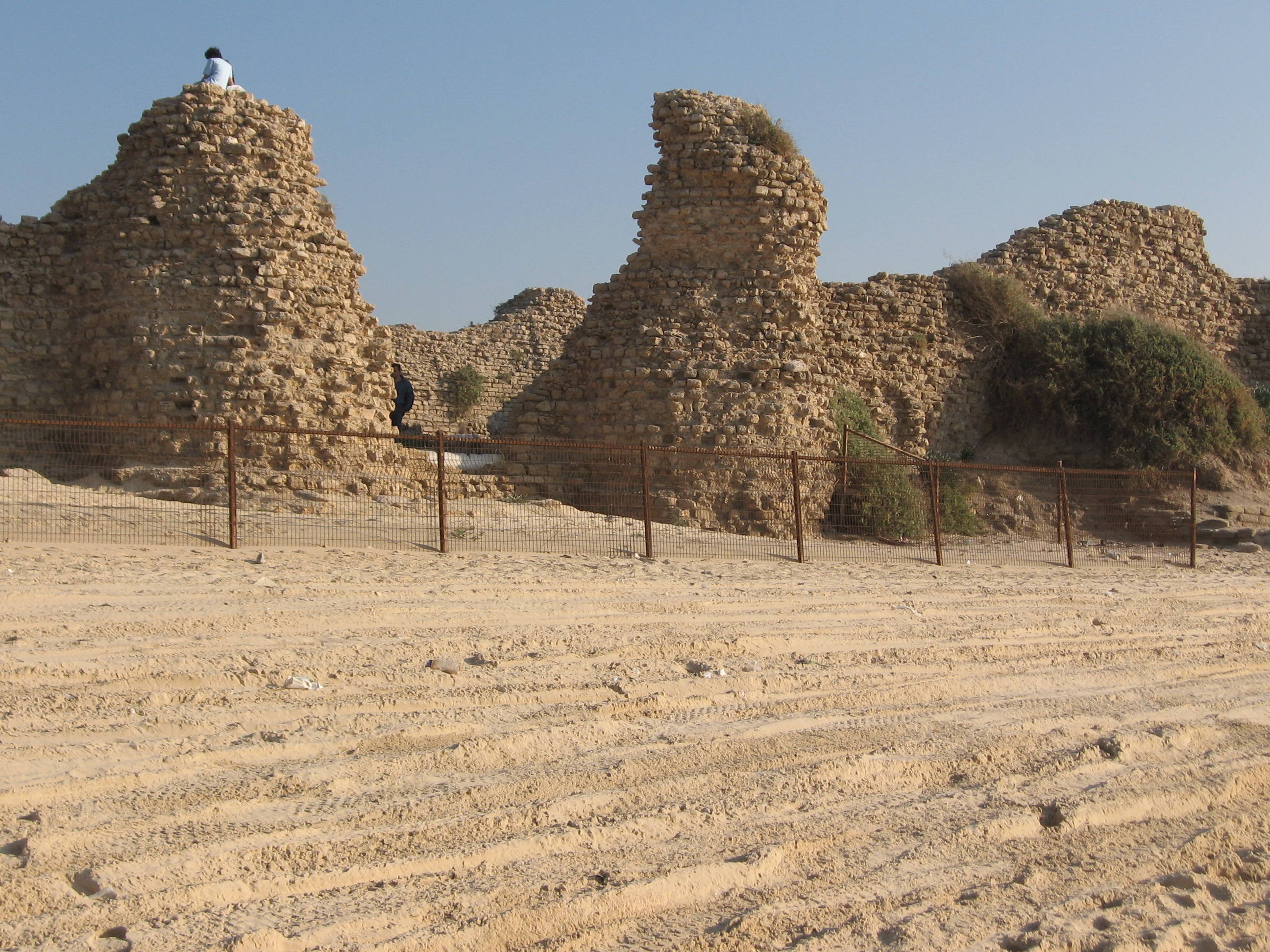 Citadel of Ashdod-Sea